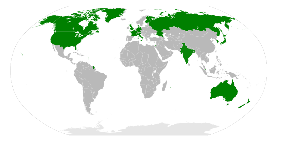 Map of national organisations with unicycling in their program according to the International Unicycle Federation (IUF) in 2017